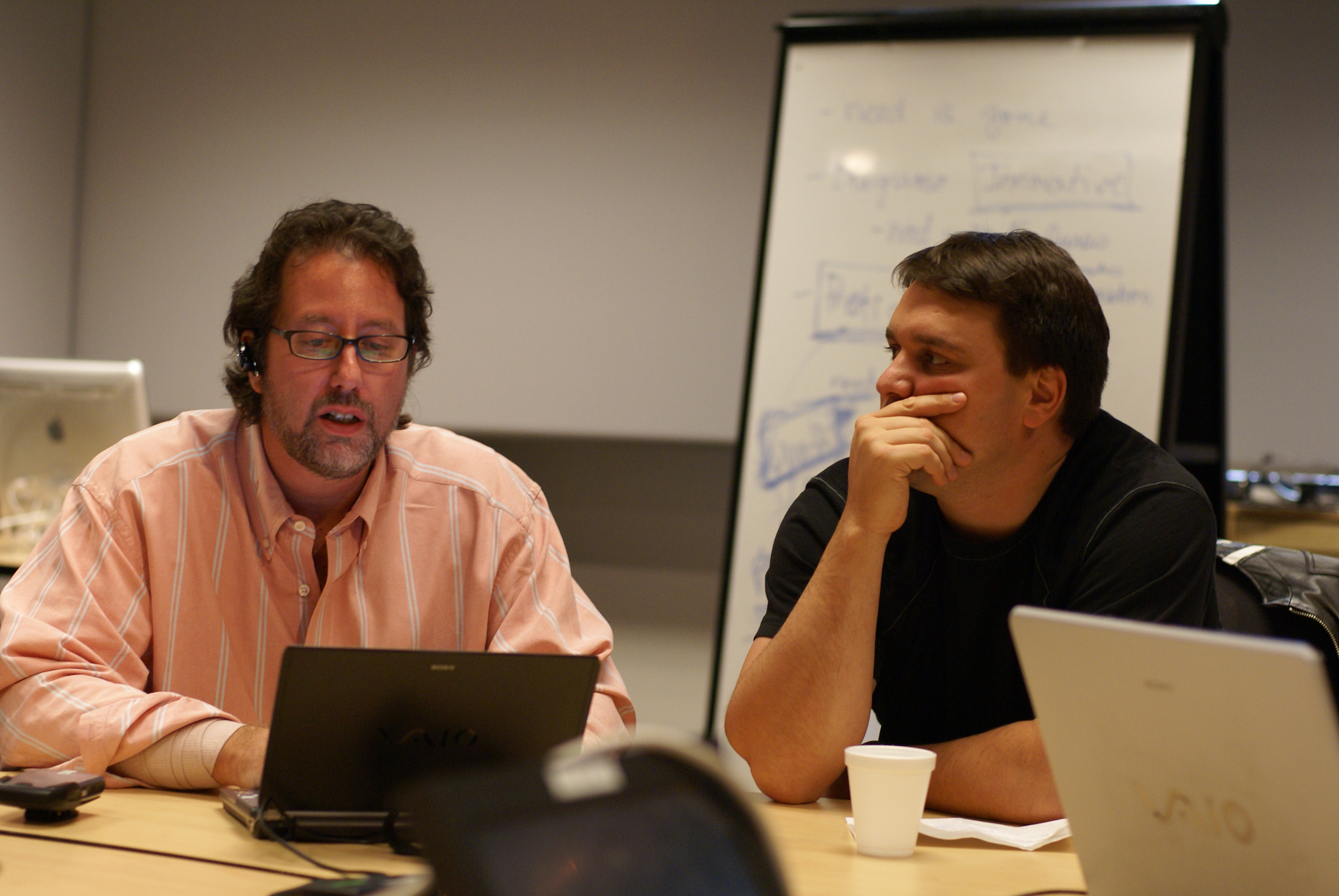 Jordan Weisman and Chris Taylor at USC Interactive Media Division, October 16, 2006, Los Angeles, California, US